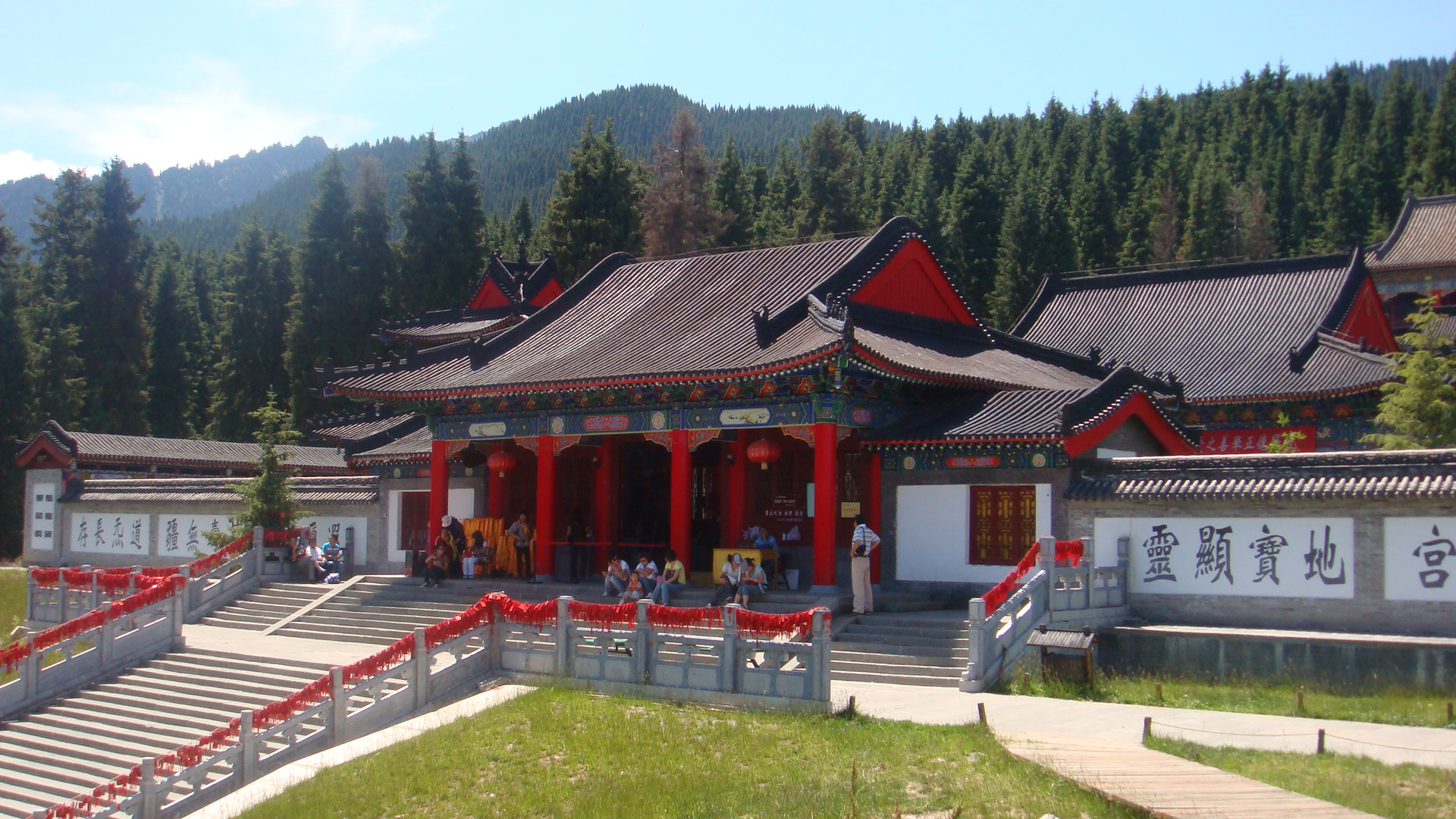 Fushou Taoist Temple (福寿观 Fúshòuguān) near the Tianchi (Heavenly Lake), in Fukang, Changji, Xinjiang. The main axis has a Temple of the Three Patrons (三皇殿 Sānhuángdiàn) and a Temple of the Three Purities (三清殿 Sānqīngdiàn). Side chapels include a Temple of the God of Wealth (財神殿 Cáishéndiàn), a Temple of the Lady (娘娘殿 Niángniángdiàn), a Temple of the Eight Immortals (八仙殿 Bāxiāndiàn), and a Temple of the (God of) Thriving Culture (文昌殿 Wénchāngdiàn). The Fushou Temple was built in 2005 on the site of a former Buddhist temple, the Iron Tiles Temple, which stood there until it was destituted and destroyed in 1950. Part of the roof tiles of the new temples are from the ruins of the former temple excavated in 2002.